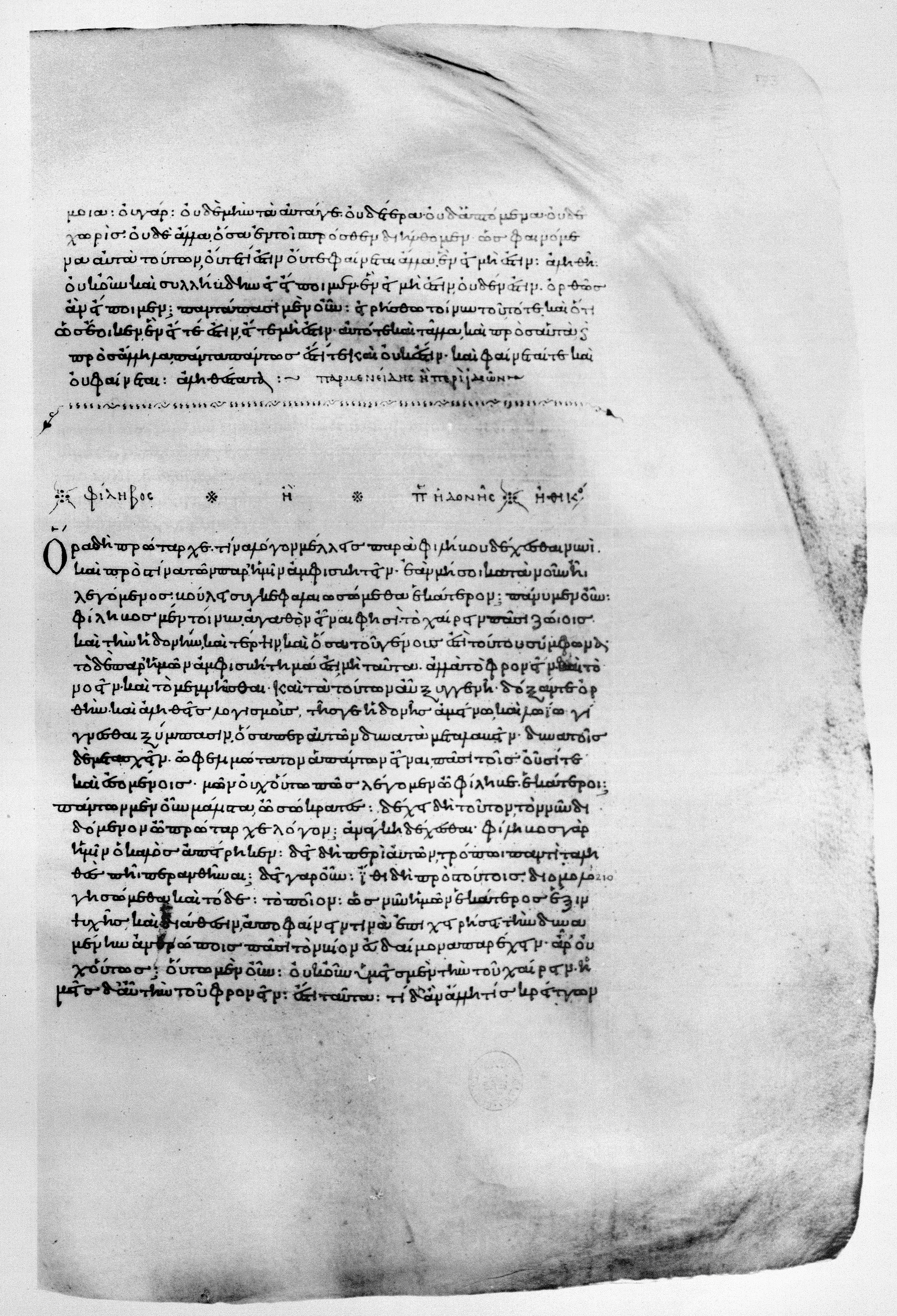 Page of the Codex Oxoniensis Clarkianus 39 (Clarke Plato). Dialogue Philebos.